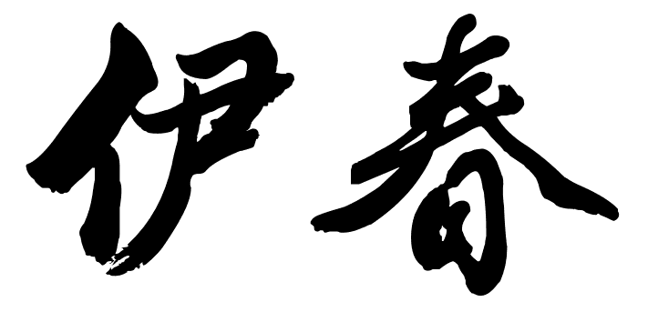 Yichun (伊春) in Chinese